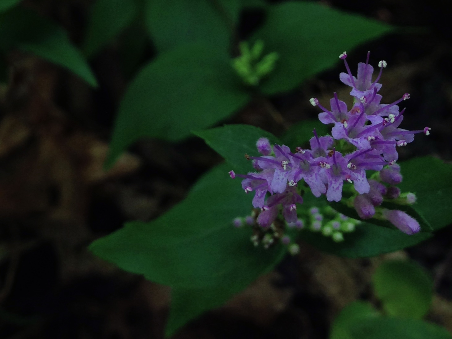 Photo of Cunila origanoides in flower. This is a native plant growing wild in Great Falls Park, in Fairfax county, Virginia, USA. This species is a member of the Lamiaceae family.